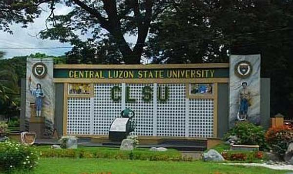 Main Gate of Central Luzon State University